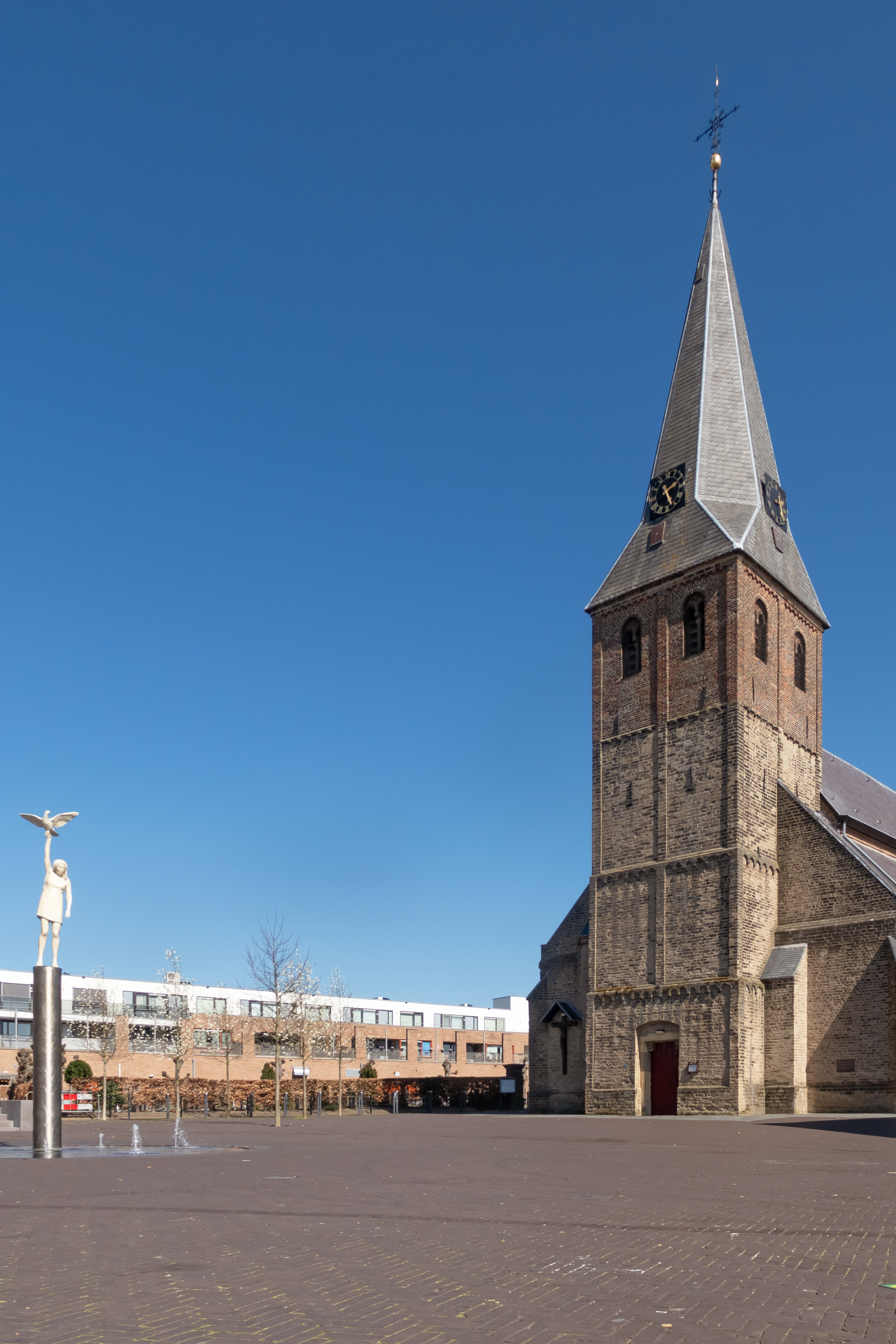 Duiven, church (the Remigiuskerk) with art work Vogelvlucht designed by Bas Lugthart and Maree Blok